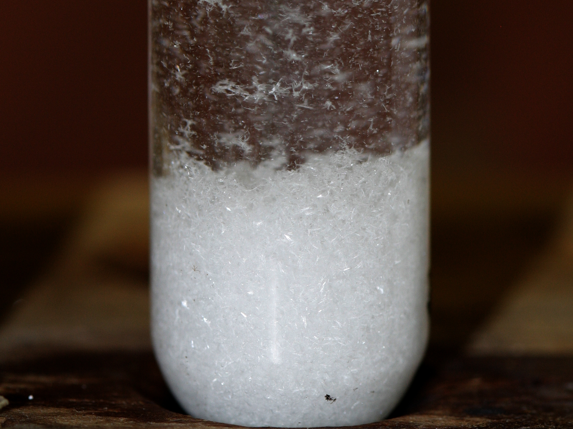 Precipiated Lead(II)-chloride